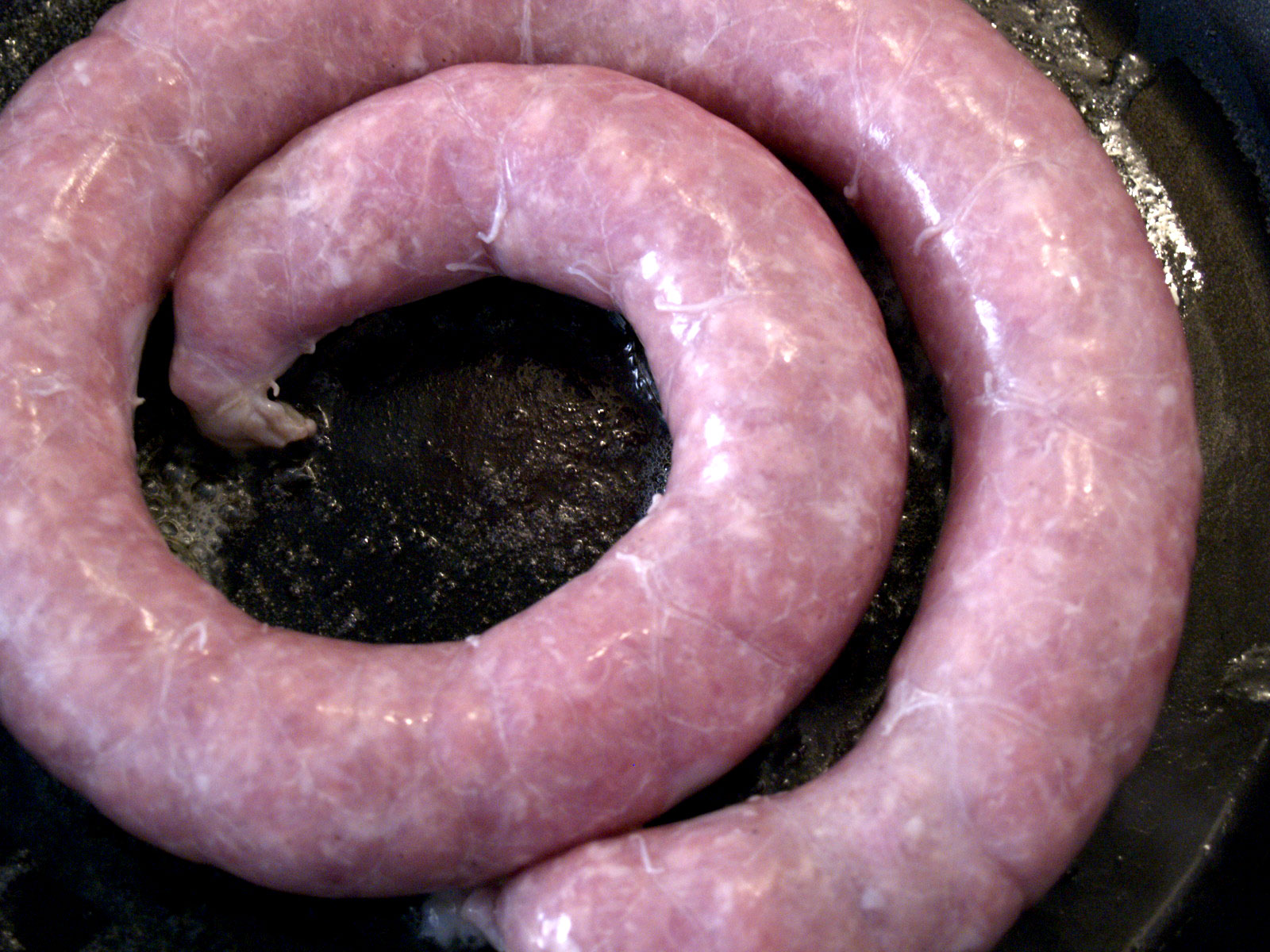 Typical Danish sausage being fried